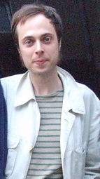 Richard von der Schulenburg from the German band Die Sterne in Magdeburg, May 2006